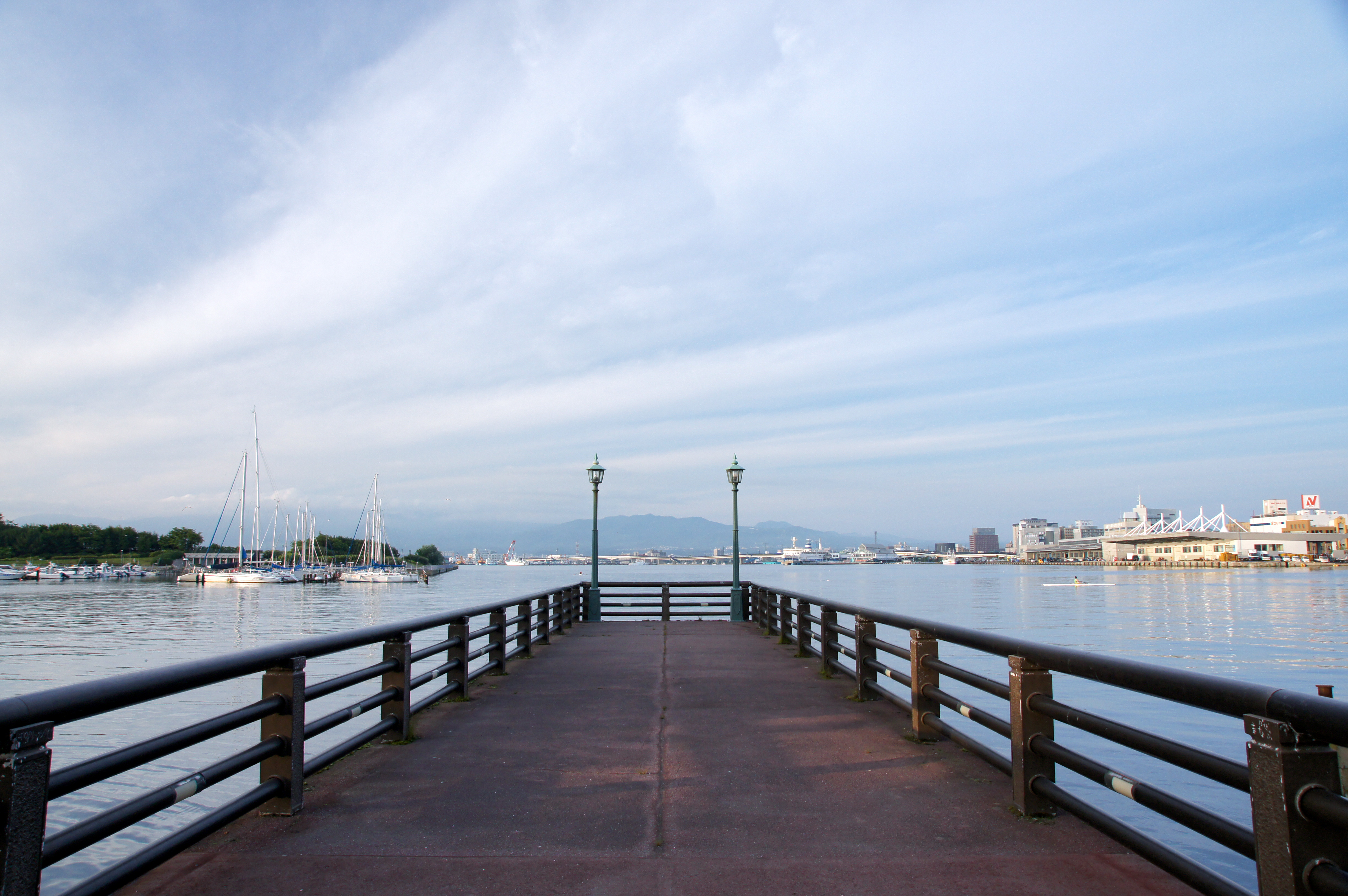 Higashihama Pier in Suehirocho, Hakodate, Hokkaido prefecture, Japan